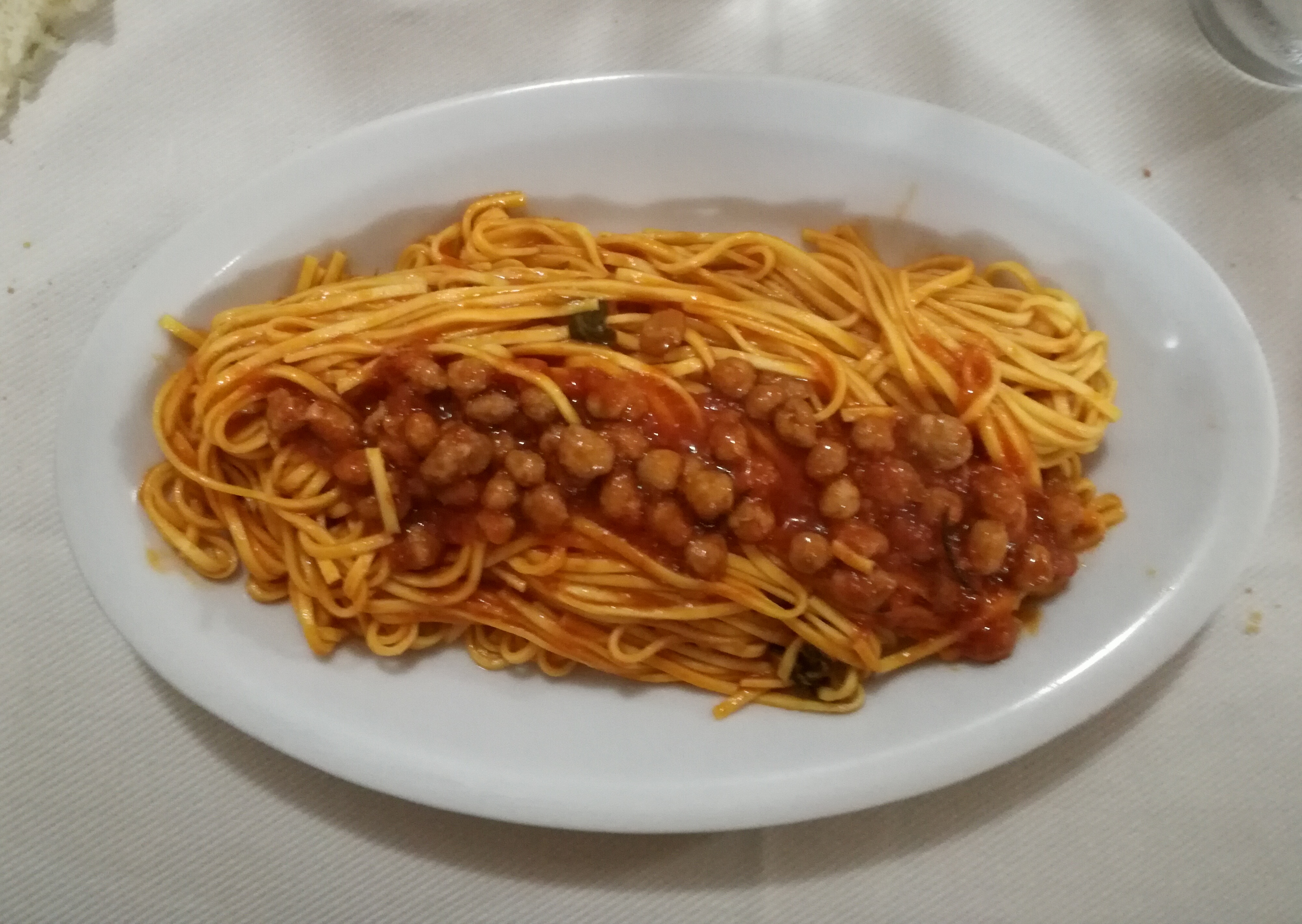 Spaghetti alla chitarra with "pallottine" (little meatballs), typical dish of Teramo's cuisine